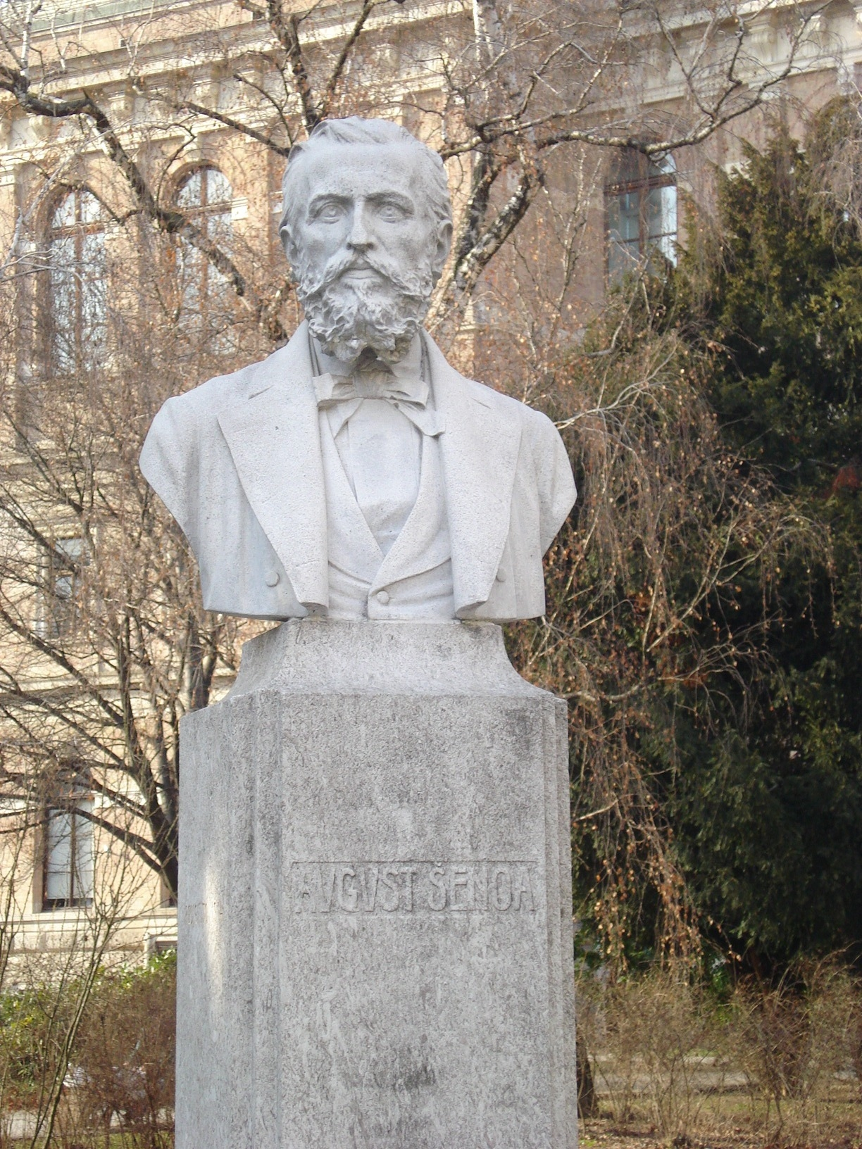 Bust of August Šenoa (1838-1881), Croatian writer, at Josip Juraj Strossmayer Square in Zagreb, made by sculptor Ivan RendićHrvatski: Poprsje Augusta Šenoe (1838-1881), hrvatskog kipara, na Trgu Josipa Jurja Strossmayera u Zagrebu, rad kipara Ivana Rendića